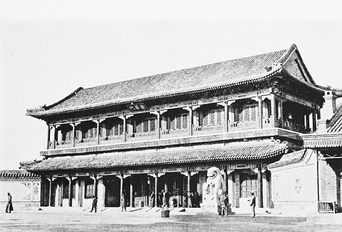 Photo from Peking, a social survey conducted under the auspices of the Princeton university center in China and the Peking Young men's Christian association (1921)